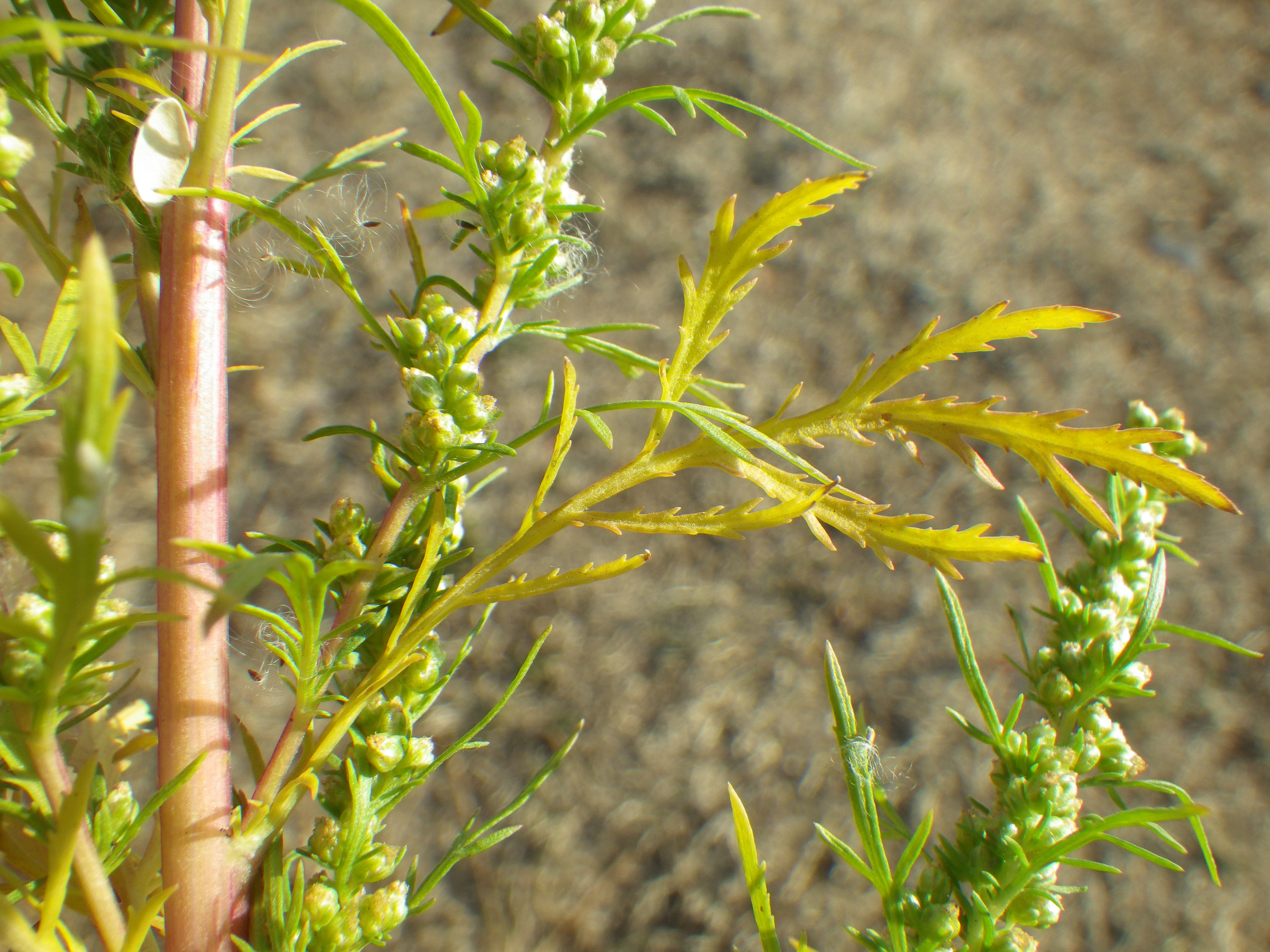 An occasional annual to biennial Artemisia common to disturbed and riparian settings in Montana. The leaves are green, glabrous, and deeply divided and the leaf segements have sharp serrations including at the tip.